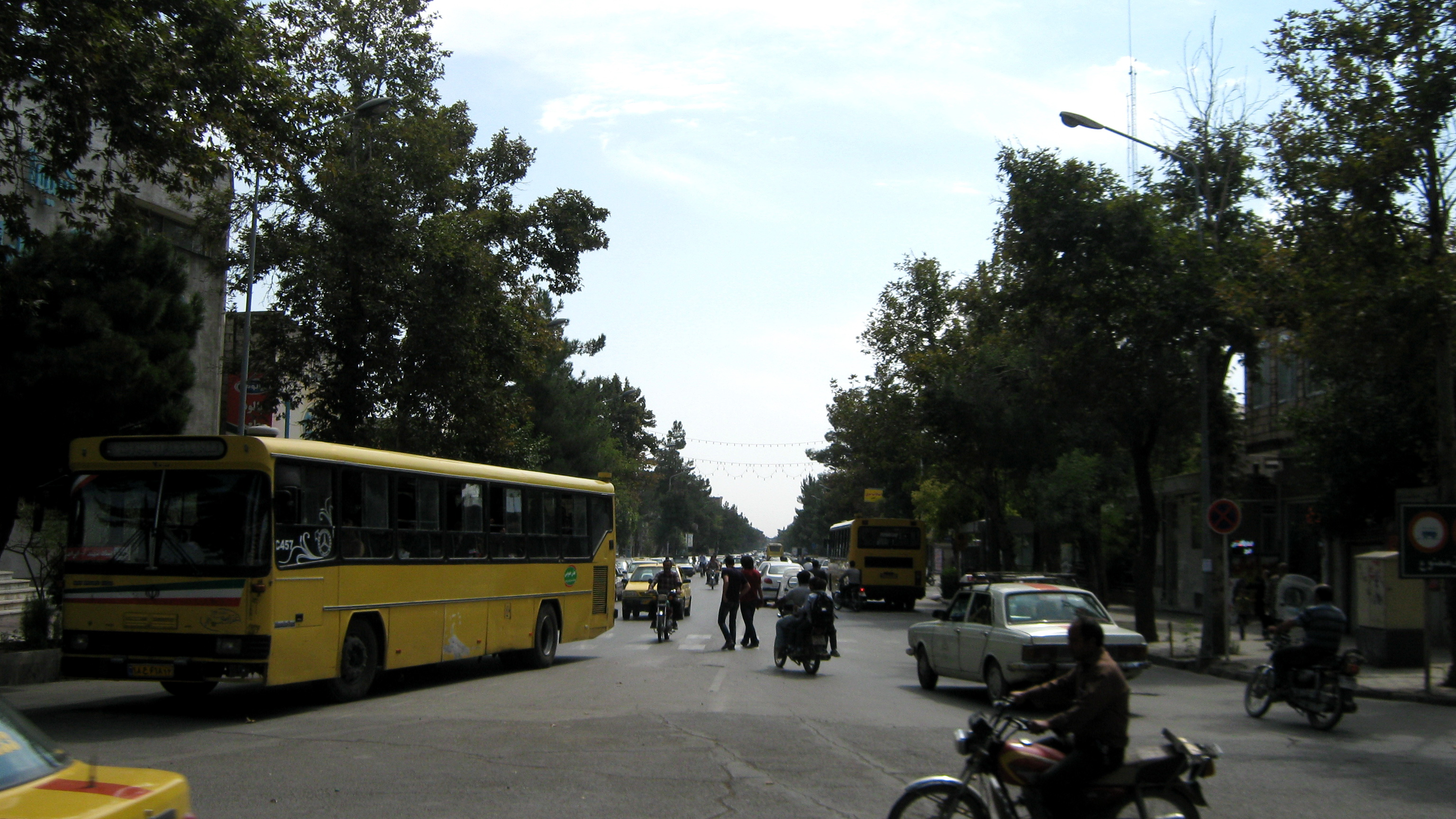 East View of Hafez sq Imam Khomeini st - Nishapur